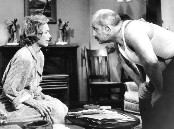 Photo of Dorothy McGuire as Mary Jordache and Ed Asner as Axel Jordache from the television miniseries Rich Man, Poor Man.